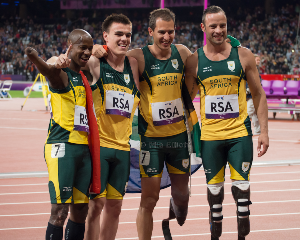 World Record by South African Team in 4x100m Relay. Your will not believe the seats I had! London 2012